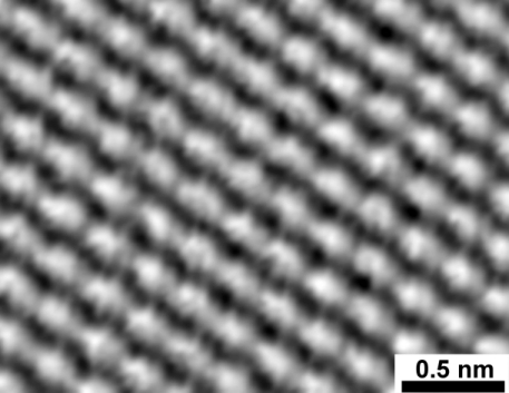 Scanning Tunneling Microscopy image of graphite, aquired under ambient conditions. Measured at the Dept. for Earth and Environmental Sciences, LMU and Center for NanoScience (CeNS), Munich.